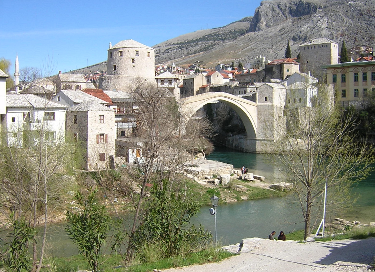 Stari most in Mostar, Bosnia and Herzegovina